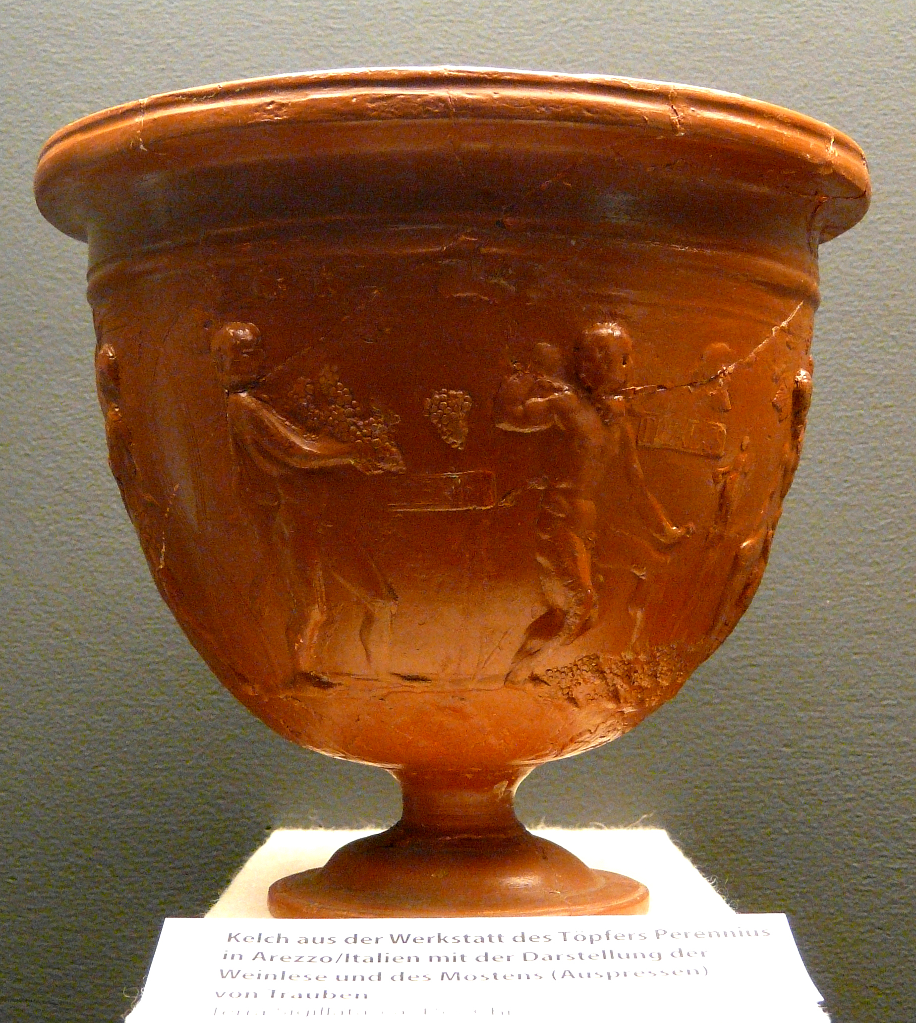 Terra Sigillata (Arretina, Drag. 11, Work of Perennius) from Novaesium, Clemens-Sels-Museum, Neuss